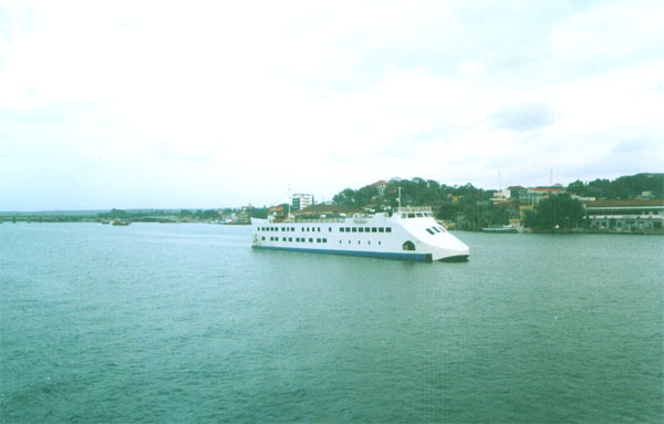 The Casino Goa, India's only casino, anchored in the River Mandovi offshore of Panaji in Goa. Taken by me on 2-May-2005